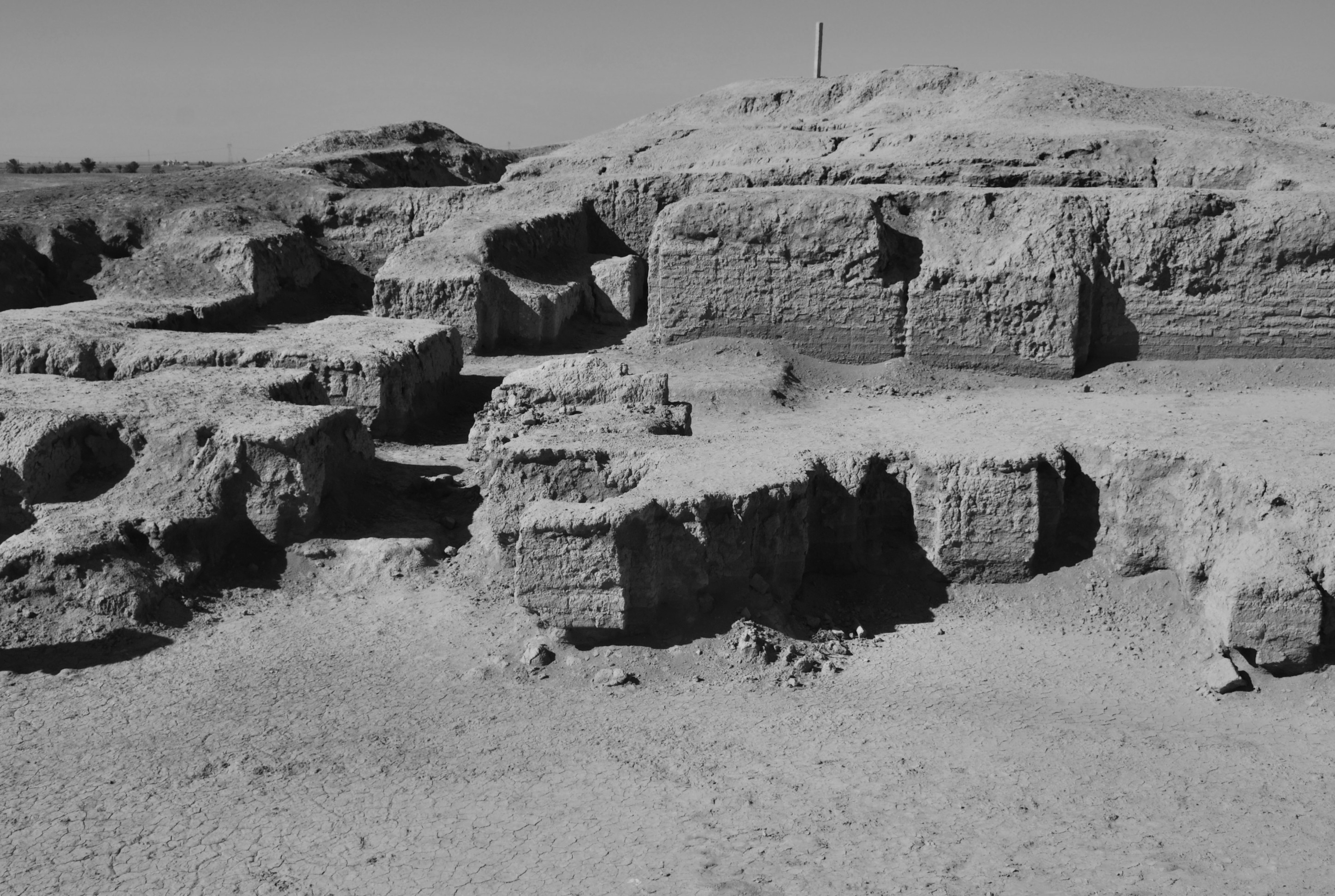 آثار مدينة مرد